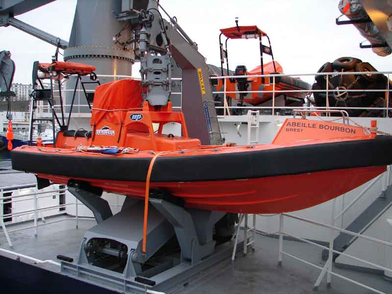 One of the rescue boats used on the salvage tug Abeille Bourbon